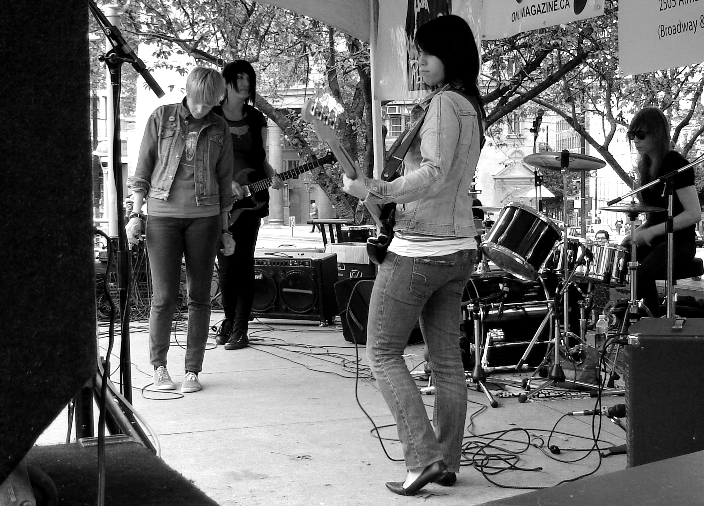 White Lung playing a concert for Insite in Canada.(L-R: Mish Way, Natasha Reich, Grady Mackintosh, Anne-Marie Vassiliou)